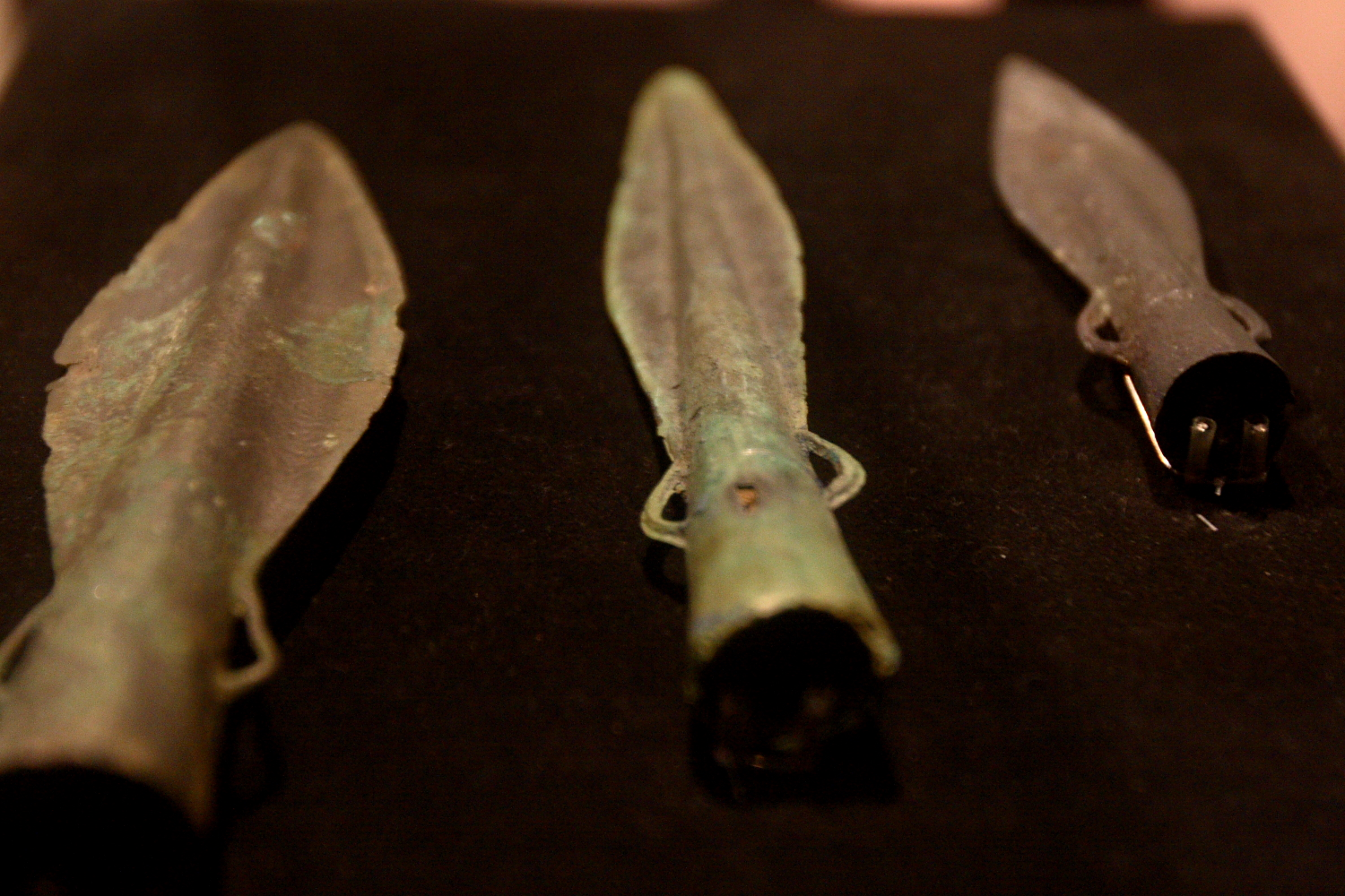 Spear in Jinsha archaeological site, Chengdu China